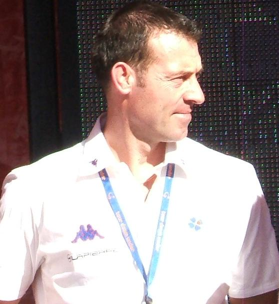 Named cyclist at the en:2009 Tour Down Under team presentation